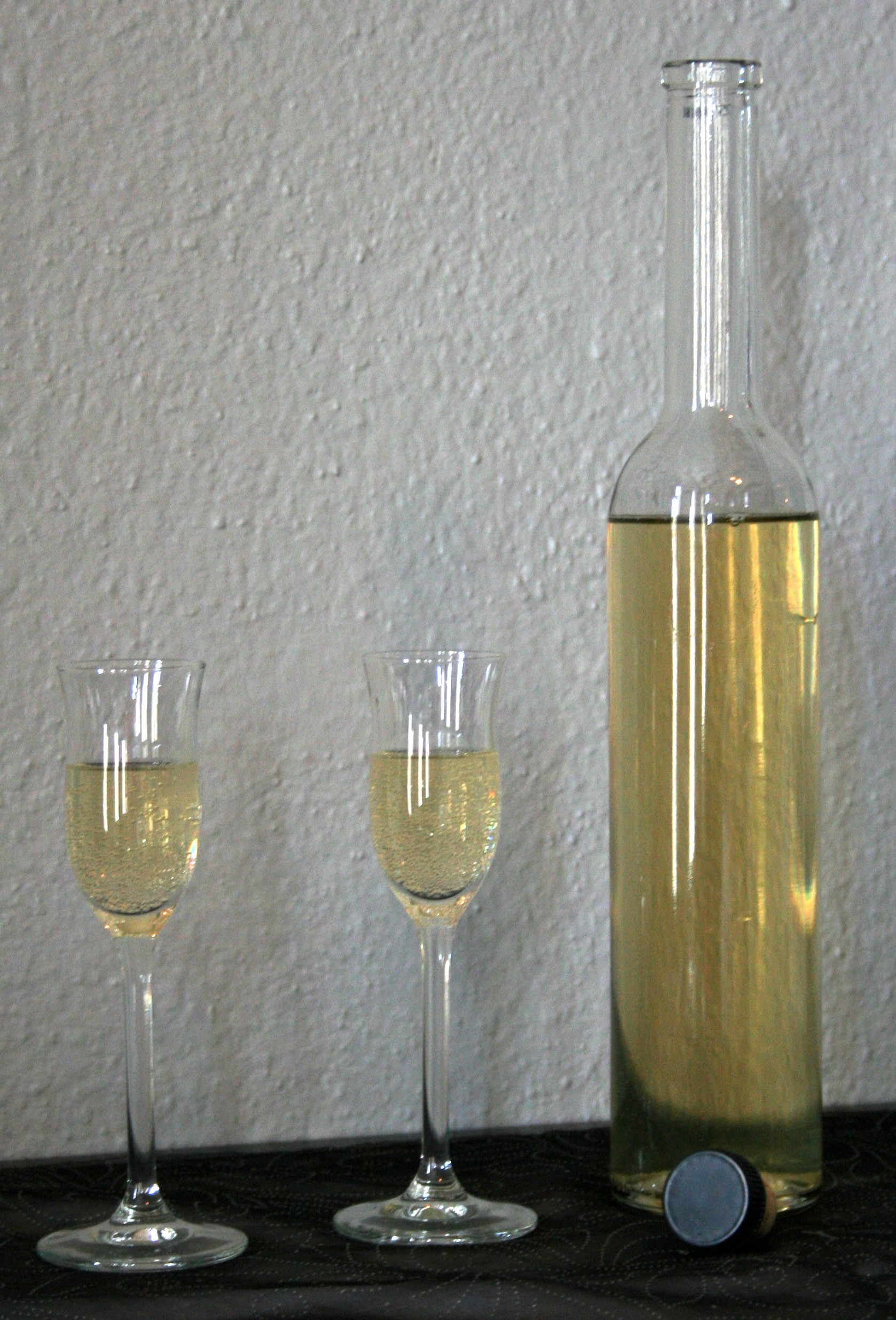 Homemade South African Mead